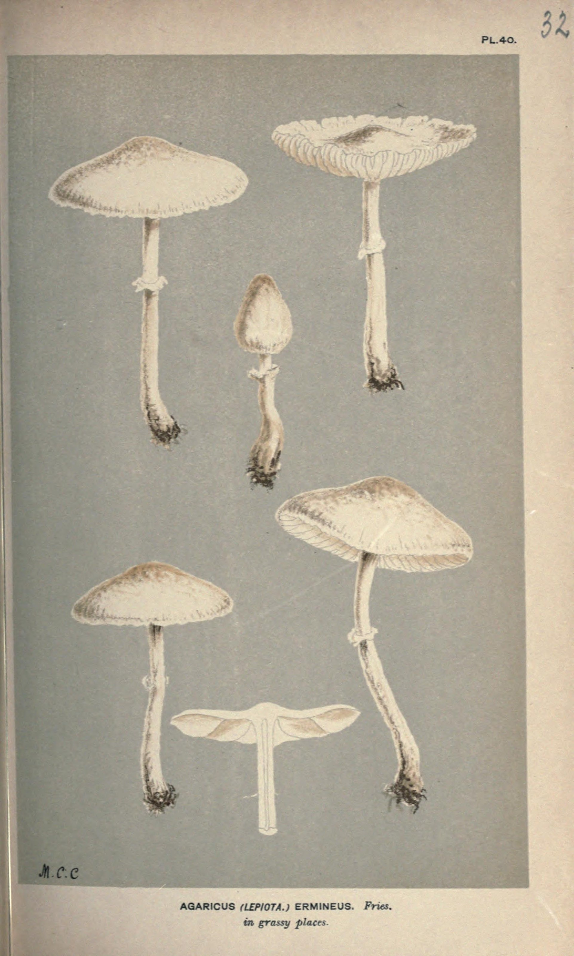 _SH«*^^^B«IHgSP3«^ PL.40. l^ hk .-v^. AGARICUS (LEPIOTA.) ERMiNEUS. Fries, in grassy places.